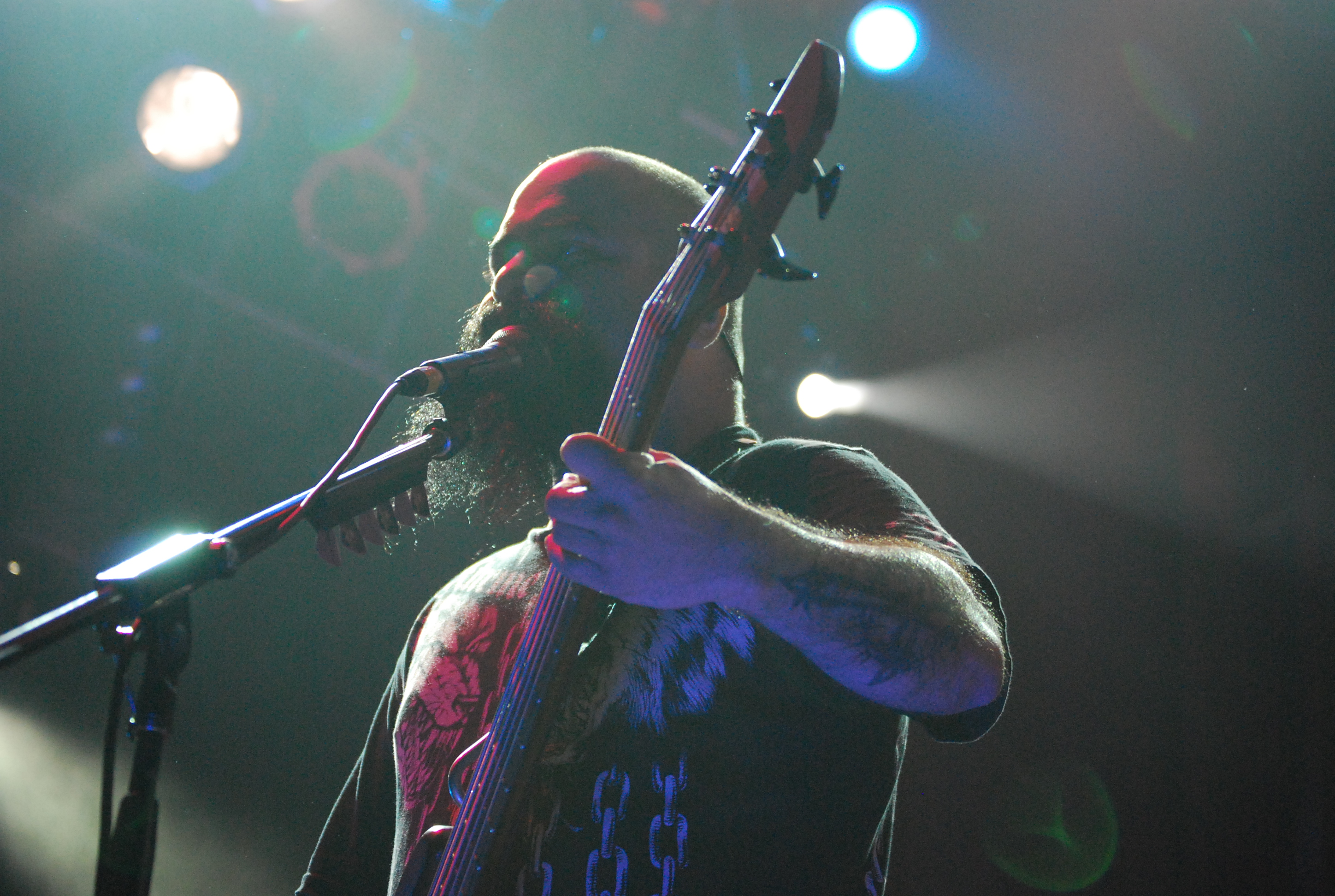 Tony Campos during the Operation Annhilation tour, October 2007